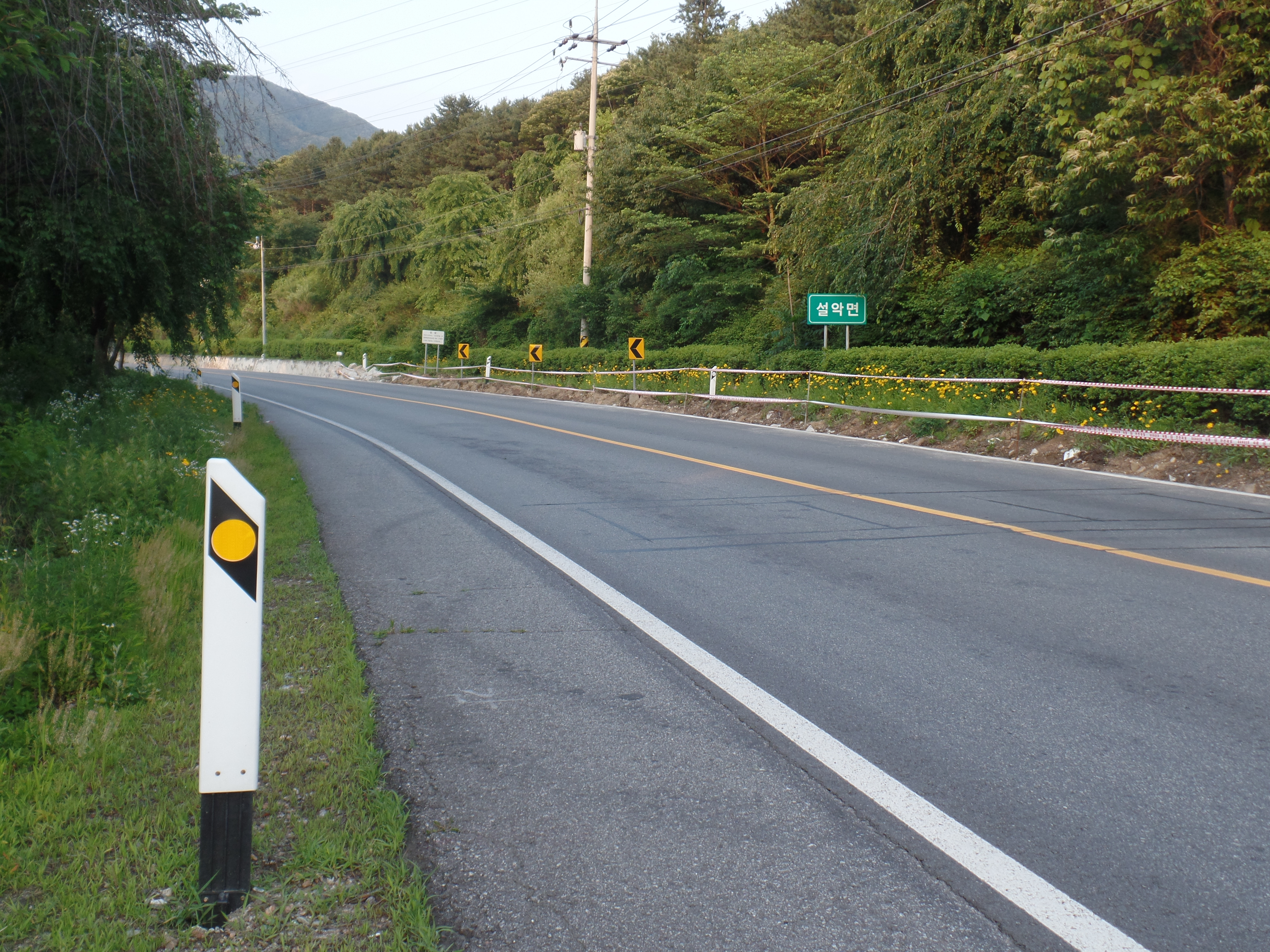 Korea National Route 37 Cheongpyeong-Seolak Border(Gapyeong, Gyeonggi-do)